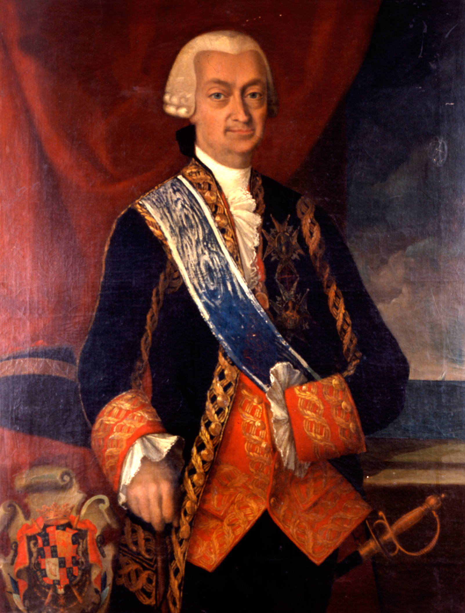 Spanish Admiral Pedro Fitz-James Stuart (1720-1789)